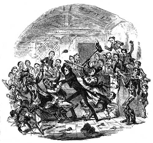 Illustration for Nicholas Nickleby by Hablot Browne